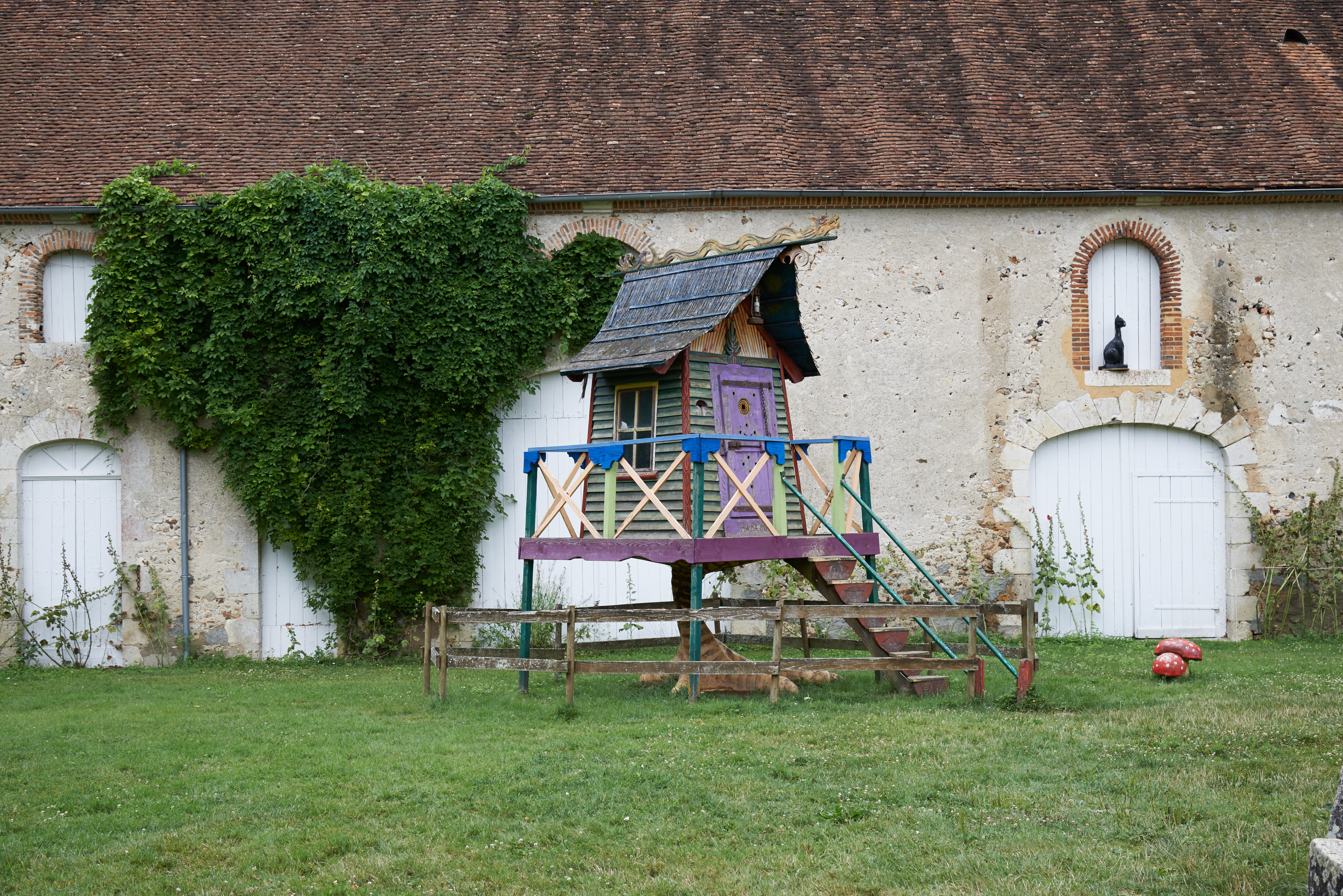 Musée de la Sorcellerie in Blancafort, France